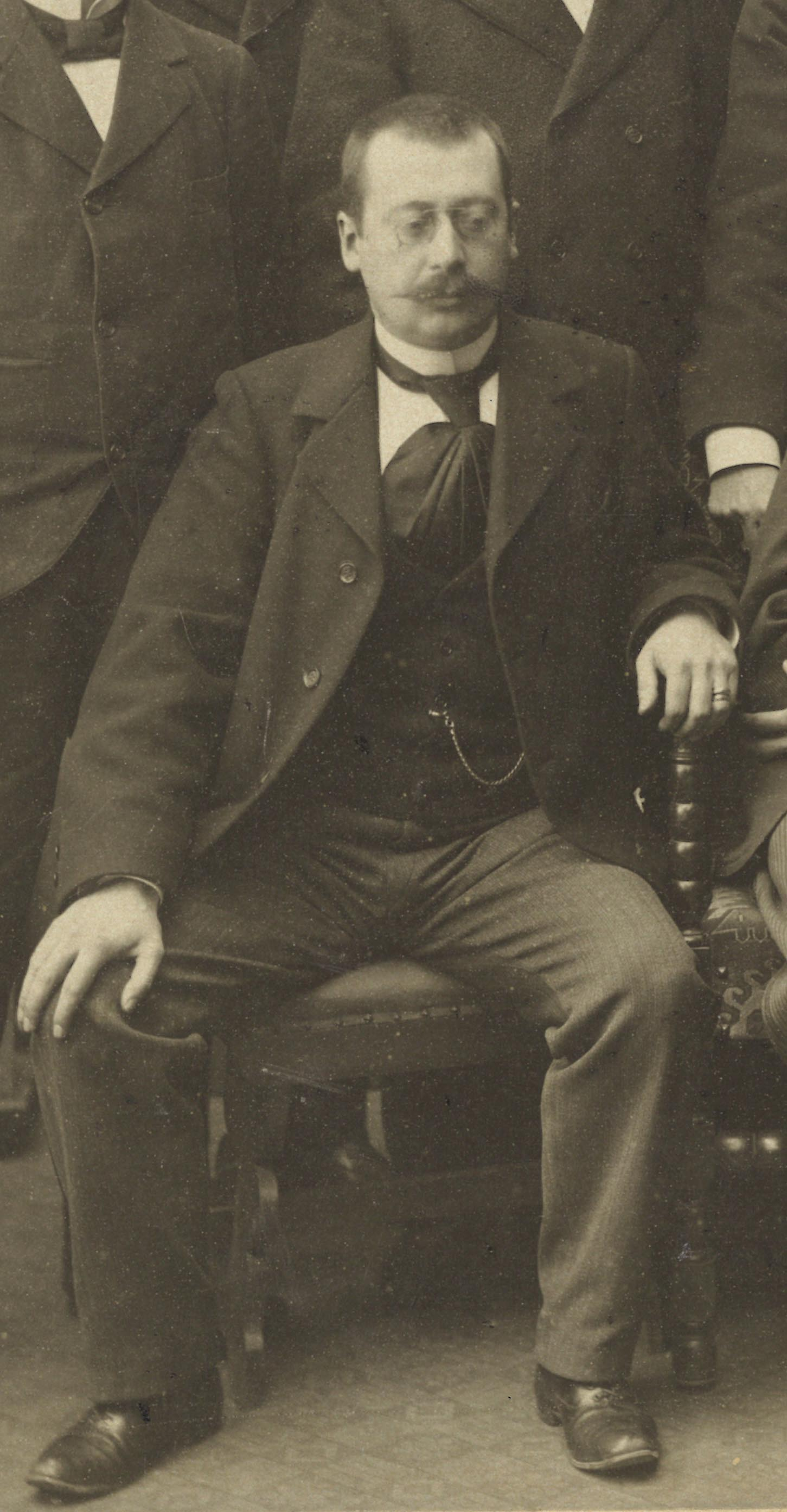 Arthur Stille (1863-1922), Swedish historian and professor at Lund University.